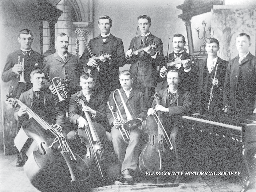 The Ellis County, Kansas Orchestra, circa 1900-1910. The Paul Bissing Orchestra, back row, left to right, Peter Staab, Ed Glennon, John Bissing, Petrovich Bissing, A.A. Wiesner, Alex Bissing, and Nick Riedel; front row, left to right, Joe Giebler, Paul Wasinger and Alois Bissing. From the Hays Daily News First published well before 1923.